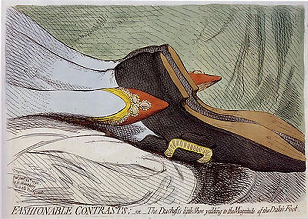 James Gillray: Fashionable Contrasts; – or – the Duchess's little shoe yeilding to the magnitude of the Duke's foot, originally published by Hannah Humphrey on January 24, 1792. The print shows the feet and ankles of the Duke and Duchess of York (Frederick, Duke of York and Albany 1763-1827, son of George III, and Frederica Charlotte Ulrica 1767-1820, his wife), in an obviously copulatory position, with the Duke's feet enlarged and the Duchess's feet drawn very small. Response in part to contemporary press flattery of the Duchess remarking on her dainty feet and elegant footwear. See commentary at [1] 1st uploaded to en.wikipedia on 04:14, 6 June 2005 by Jpetts.